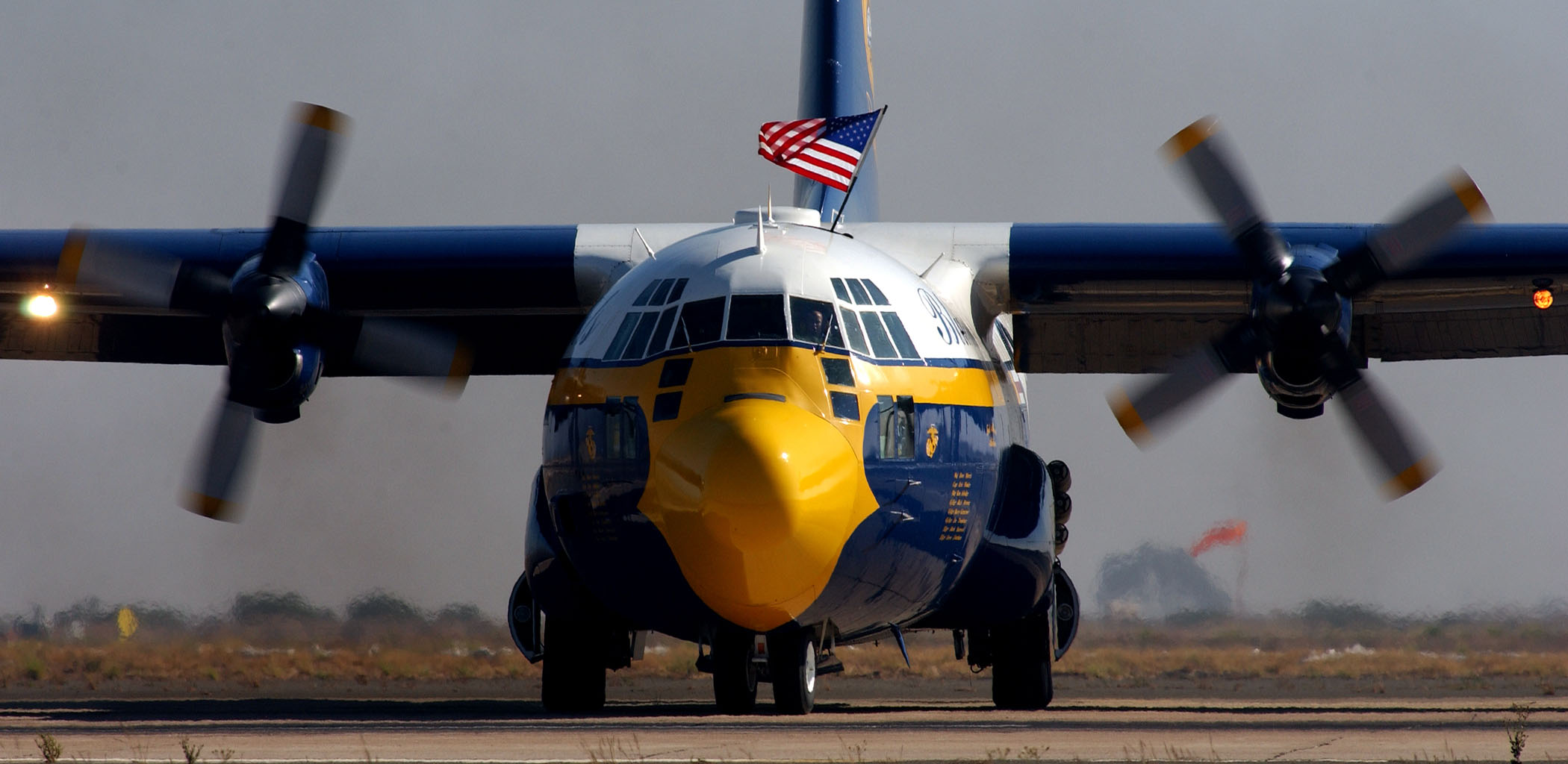 San Diego, Calif. (Oct. 17, 2003) -- The Marine Corps manned C-130 aircraft affectionately called Fat Albert from the Navy Blue Angels performs with the precision flight demonstration team at the Miramar Air Show at Marine Corps Air Station (MCAS) Miramar, Calif. U.S. Navy photo by Photographer's Mate Airman Mark Rebilas. (RELEASED)